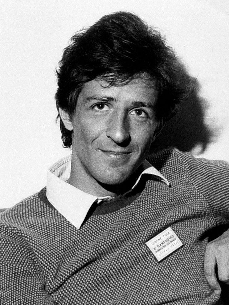 The Italian singer-songwriter and actor Giorgio Gaber (Giorgio Gaberscik) taking part in the 8th Cantagiro. Italy, 1969